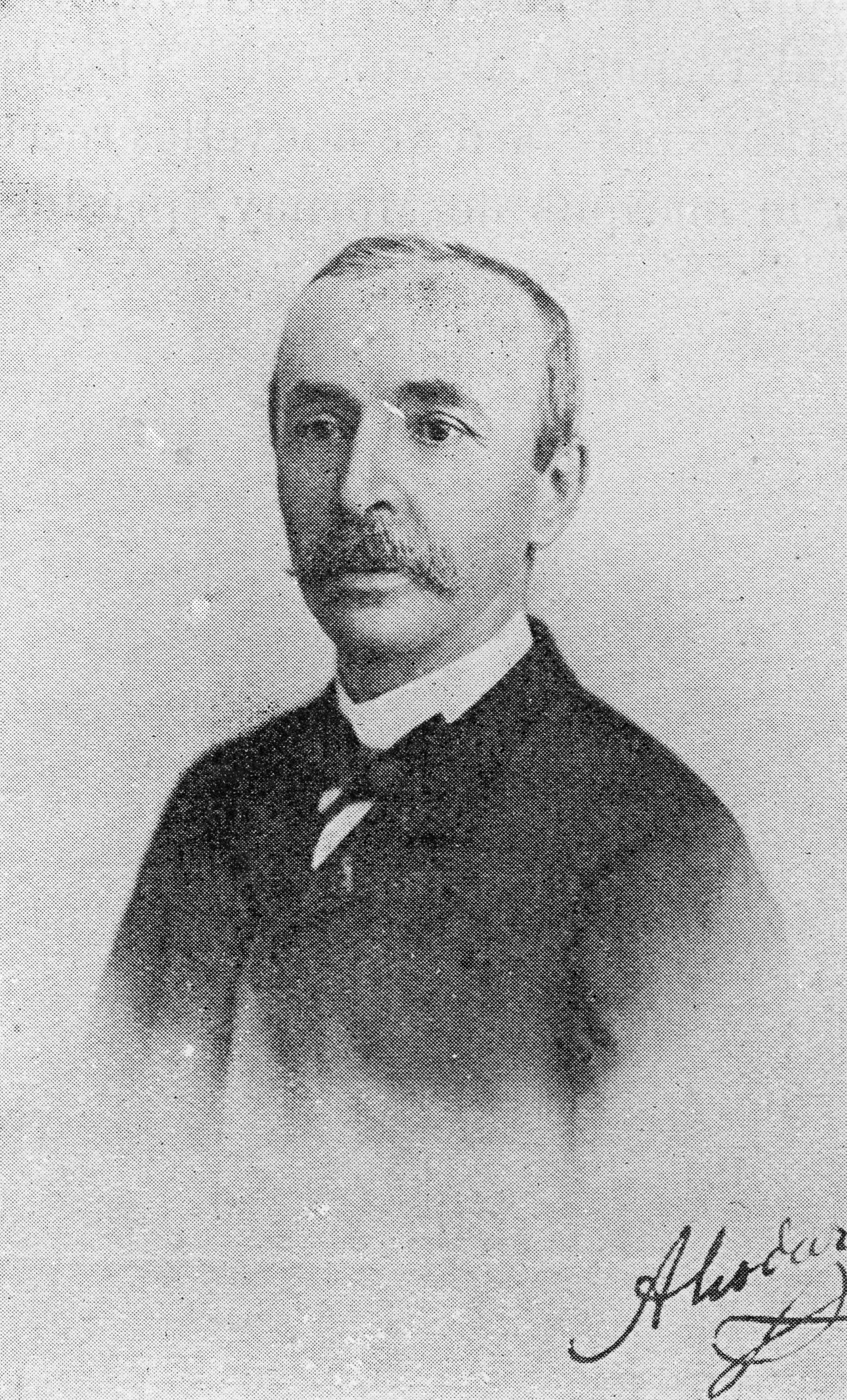 Book by Pierre de Coubertin